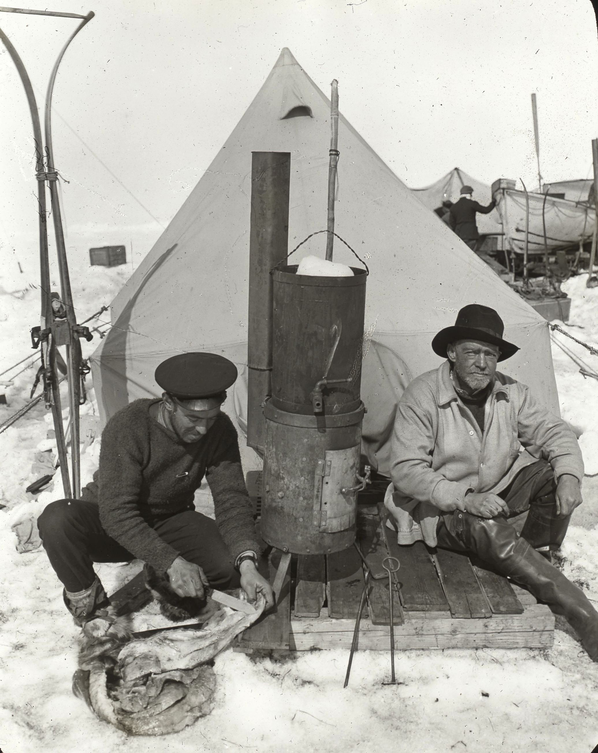 Hurley and Shackleton, Ocean Camp, Weddell Sea, 1914-1915, lantern slide, State Library of New South Wales